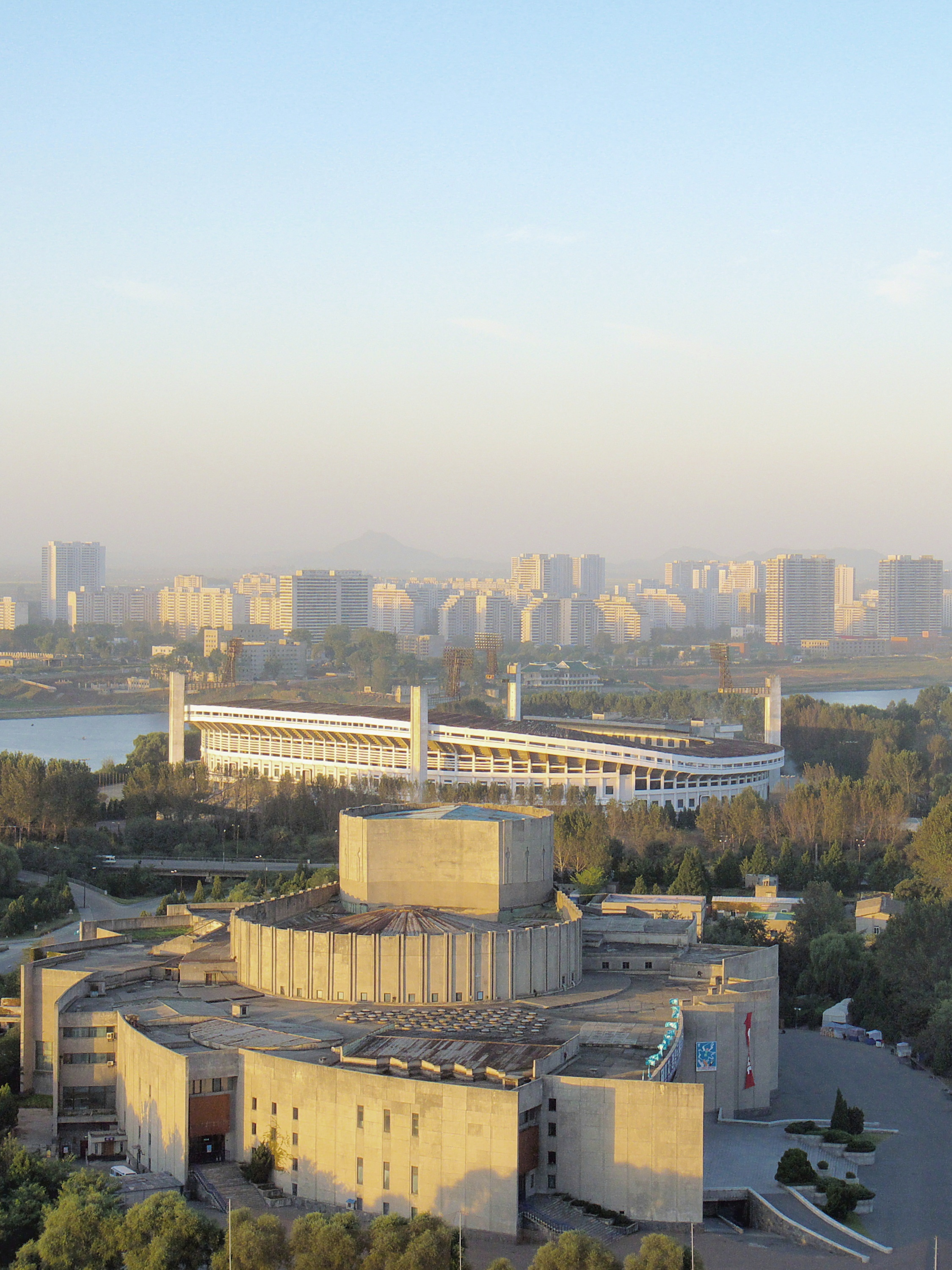 Yanggakdo, an island on the Taedong river which bisects the city, is effectively a prison island of fun. There's the Yanggakdo Hotel, one of the largest working hotel in the city, the Yanggakdo Stadium, the International Friendship Cinema and a small golf course. Foreigners are allowed to roam aroud the island freely but they are not allowed to cross the bridge linking it to the rest of Pyongyang.